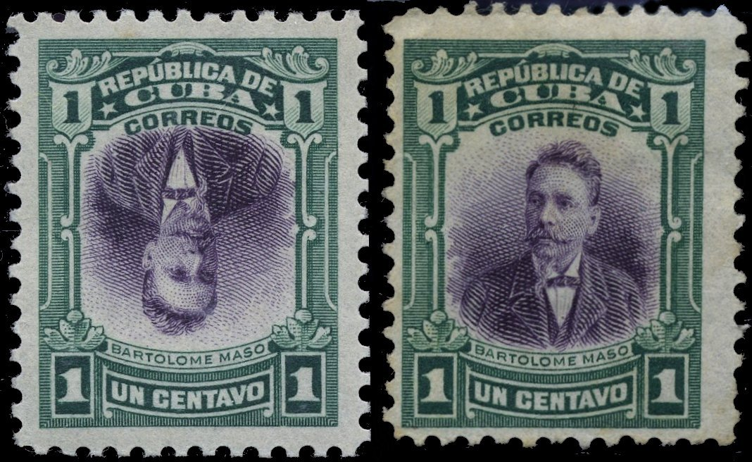 Bartolomé Masó stamp from Cuba, 1910 from the definitive series on Patriotic Cubans. The purple portrait plate was placed into the printing press upside down for several sheets yielding the significant error.